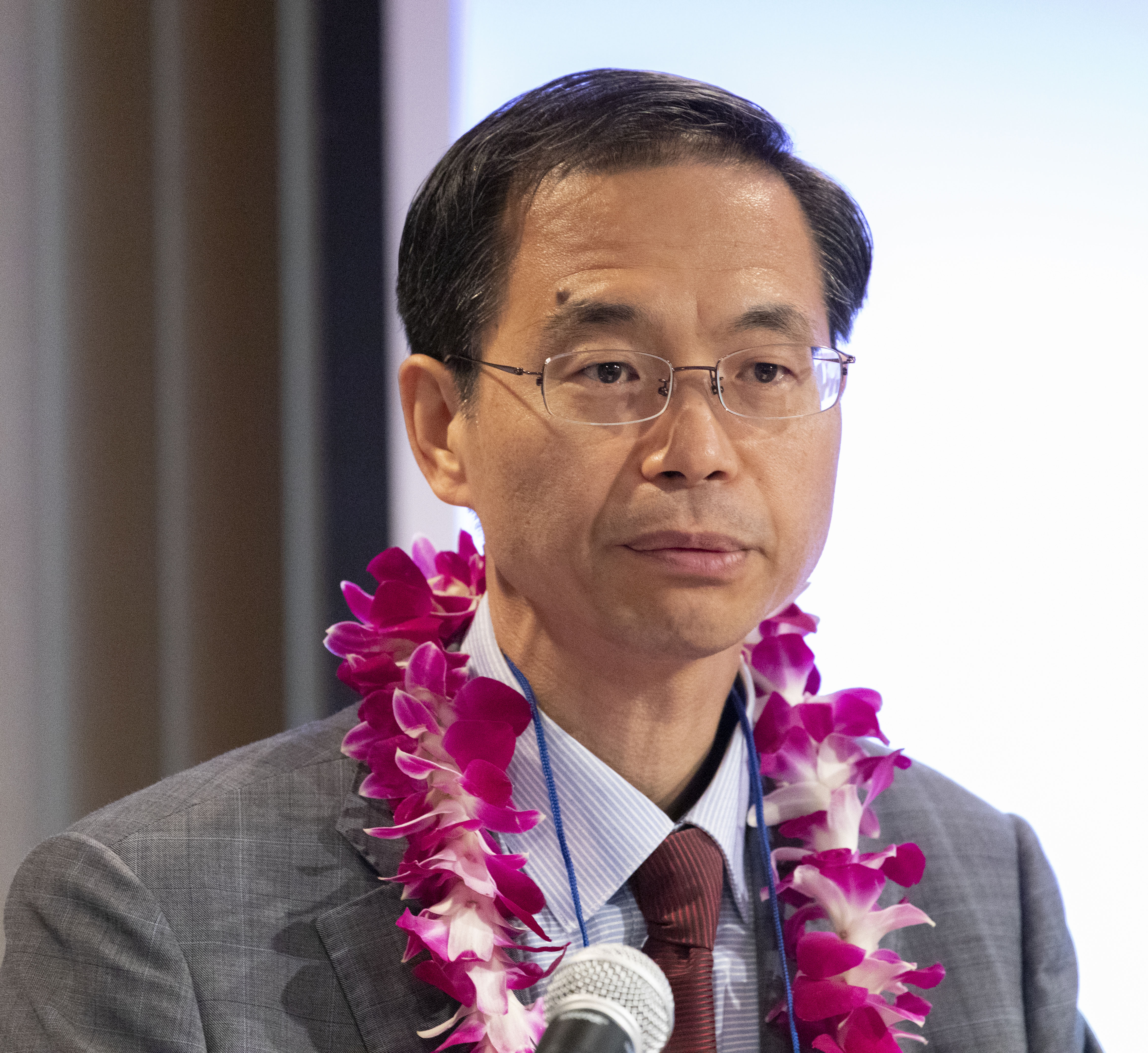 Young-hoon Kang, consul general of the Republic of Korea in Honolulu